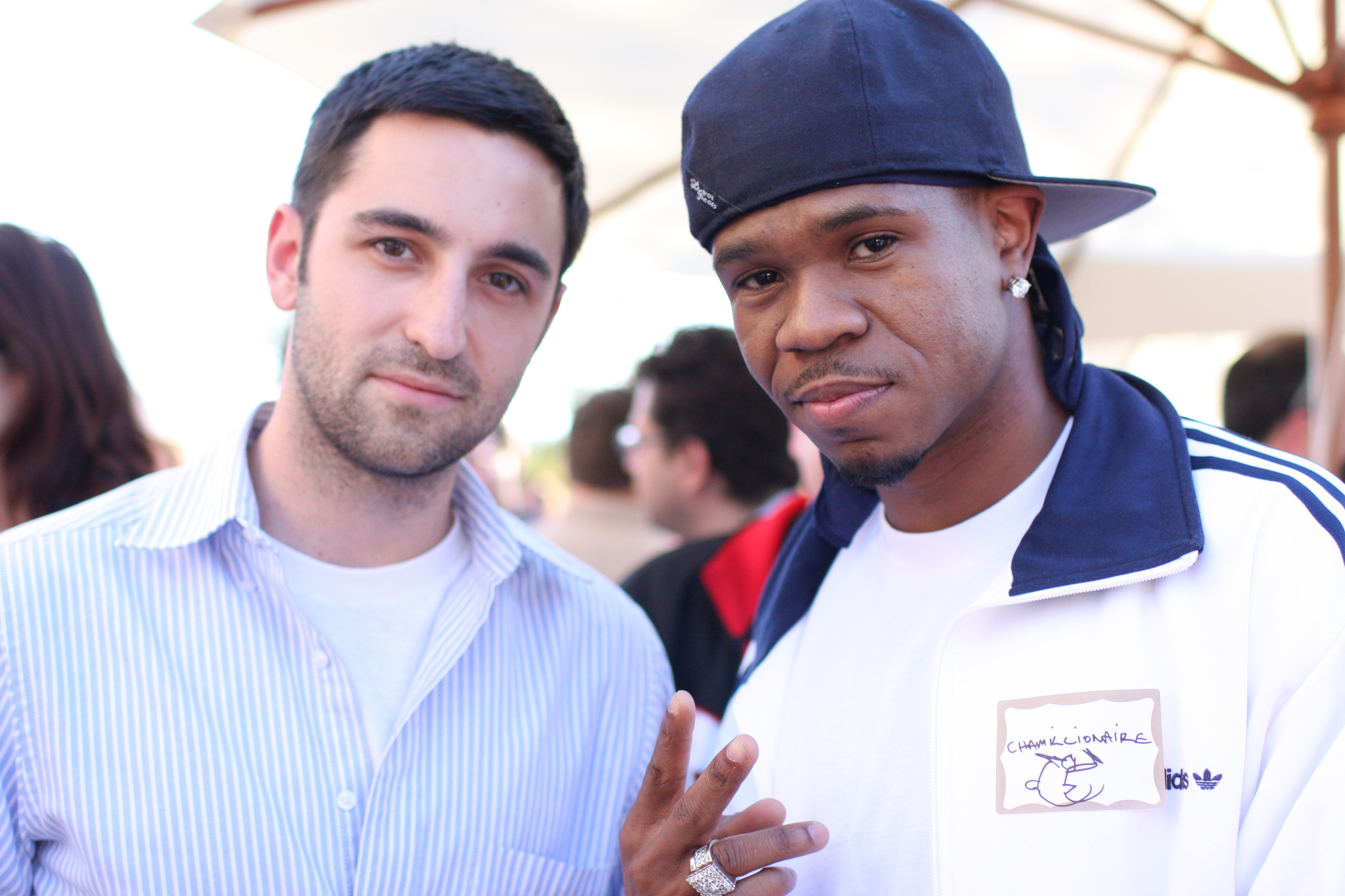 Eric Eldon and Chamillionaire. (CC) Brian Solis, and .